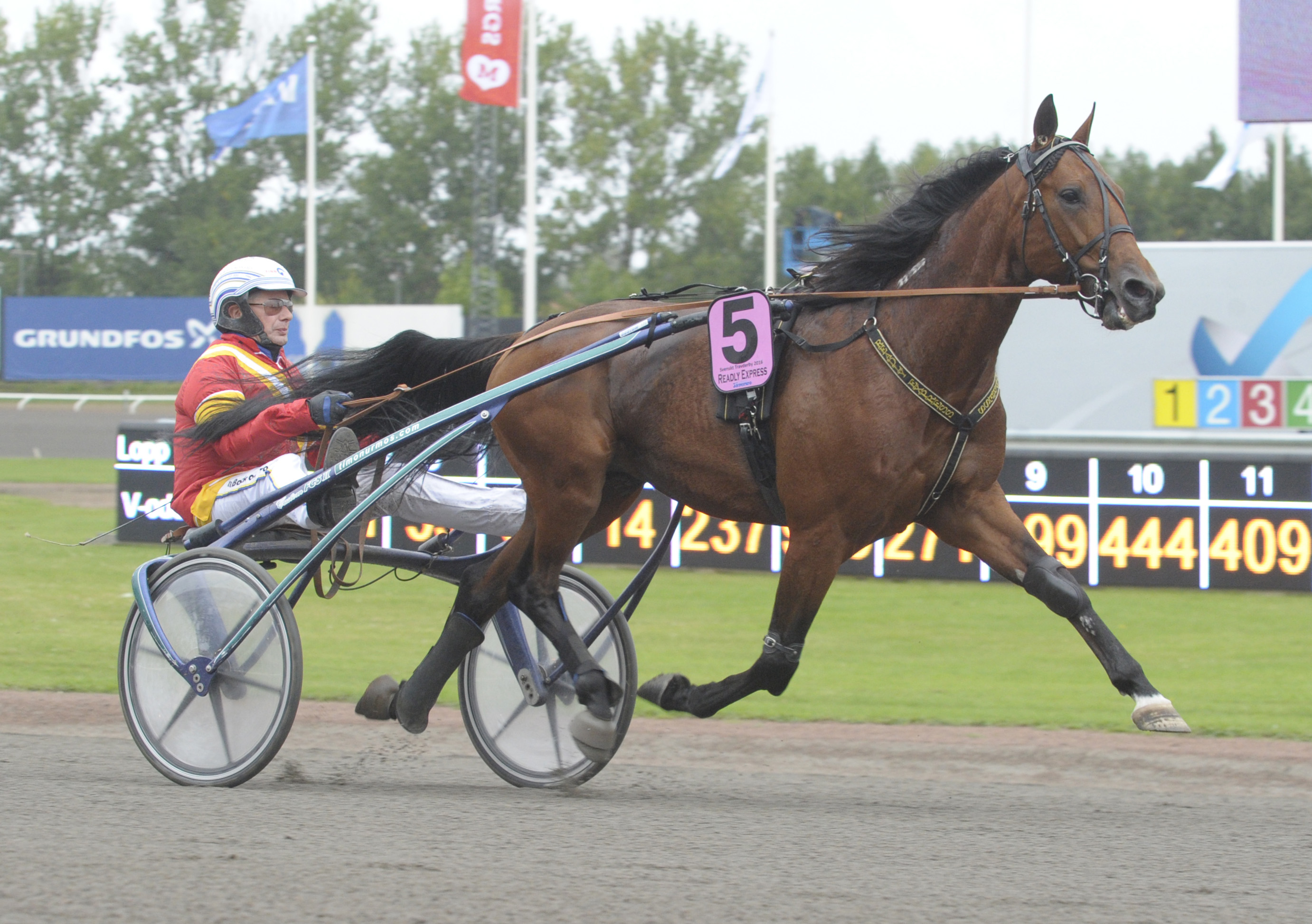 Readly Express and driver Jorma Kontio at Swedish Trotting Derby, Jägersro 2016-09-04.